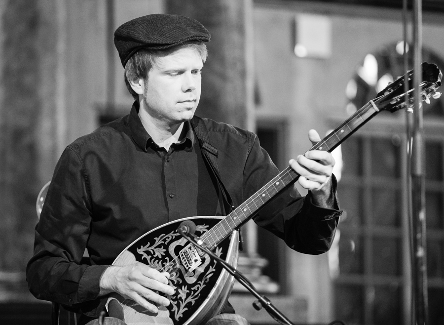 Stein Urheim in a concert with Erlend Apneseth in Kongsberg kirke. The concert was part of Kongsberg Jazzfestival and took place on 04. July 2019 in Kongsberg. Lineup:Erlend Apneseth (Hardanger fiddle)Stein Urheim (lute)Anja Lauvdal (piano)Ida Løvli Hidle (accordion)Fredrik Luhr Dietrichson (double bass)Hans Hulbækmo (drums and mouth harp)